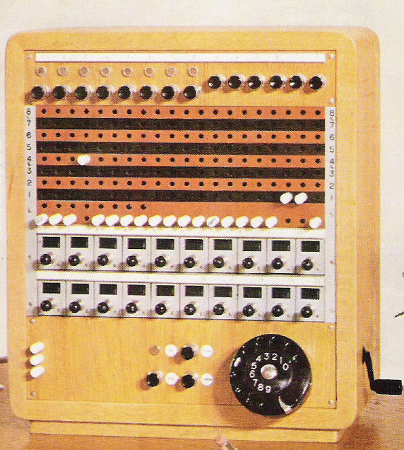 Description= Manuell proppväxel 20-nummers Source= Egen bild Date= Publicerad 2 april 2007 Author= Lars Thorsell Permission= other_versions=